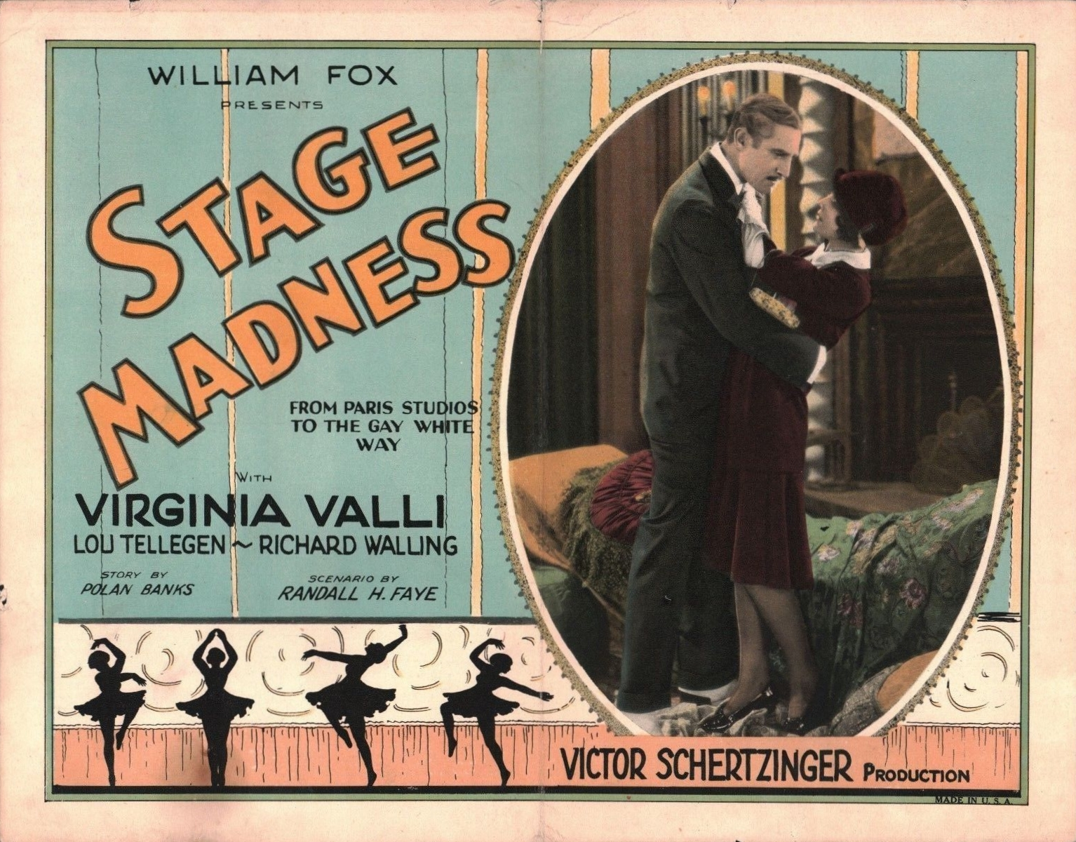 This is a lobby card for the 1927 American silent drama film Stage Madness.